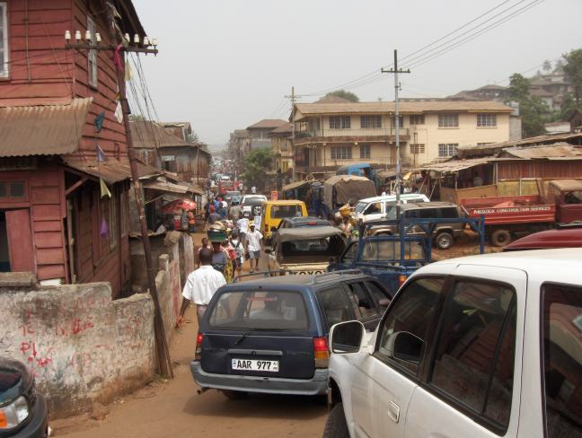 Typical street and traffic in Freetown.